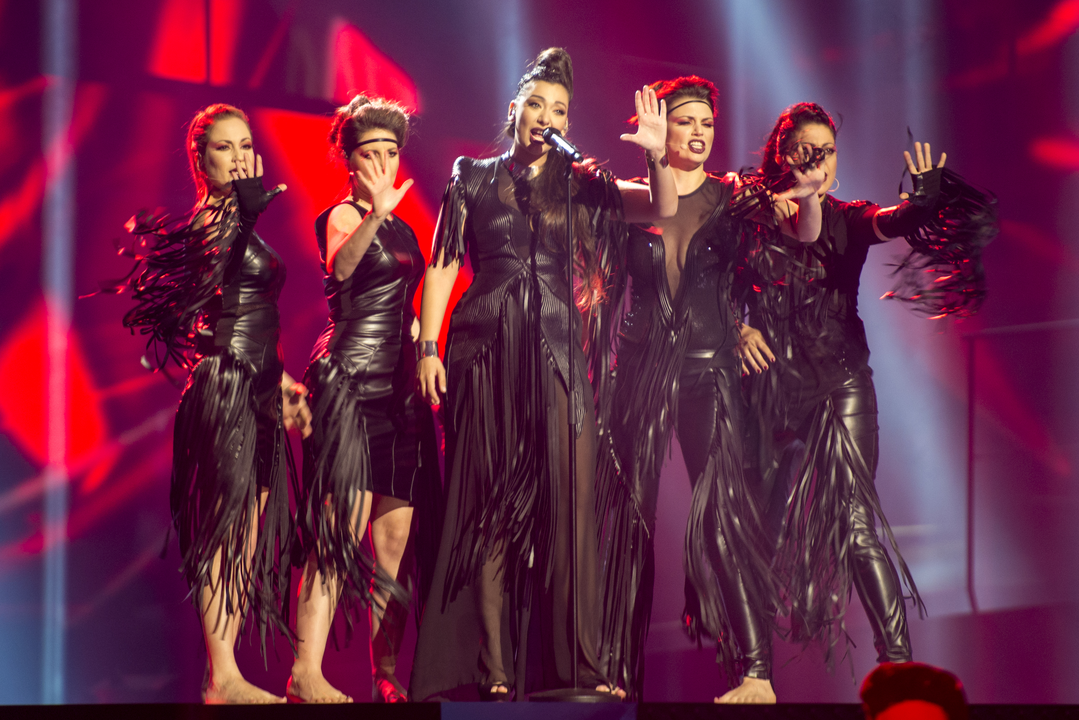 Sanja Vučić ZAA representing Serbia with the song "Goodbye" during a rehearsal before the second semi final of the Eurovision Song Contest 2016 in Stockholm. (Help translate this text)